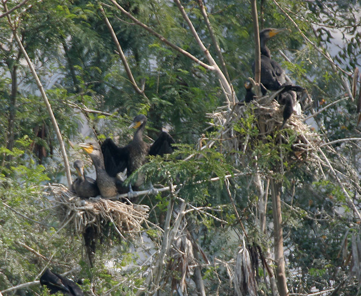 Great Cormorant (Phalacrocorax carbo), Great Black Cormorant, Black Cormorant or Black Shag Phalacrocorax carbo in Hyderabad, India.